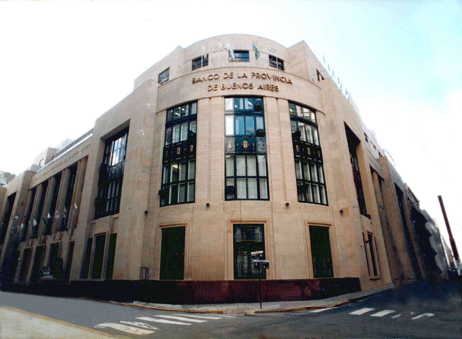 Central Office